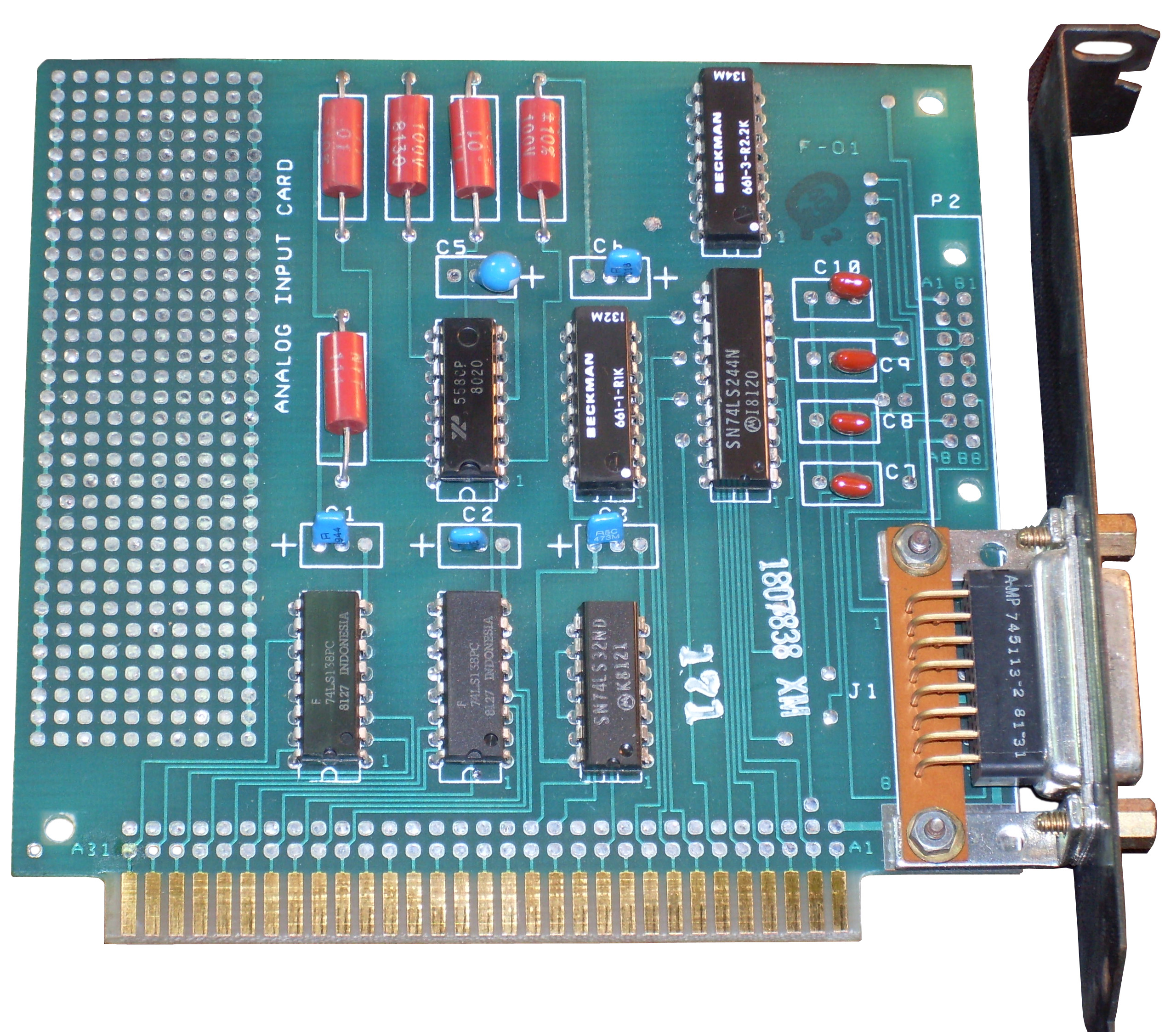 Original Game Control Adapter found on the IBM PC (IBM 5150)